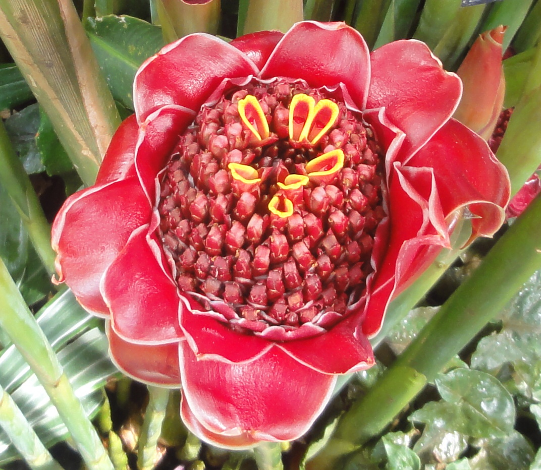 Etlingera elatior Flower, Auckland Winter Garden